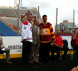 Josh Gorges of the Montreal Canadiens, National Hockey League commissioner Gary Bettman and Steve Staios of the Calgary Flames at the press conference introducing the 2011 Heritage Classic game and uniforms. Cropped from the original photograph by Pat Steinberg of Calgary's Fan960 radio.